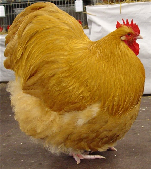 Orpington